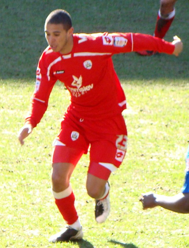 13/03/11 Cardiff V Barnsley, Chamionship, Cardiff City Stadium, Cardiff, Wales